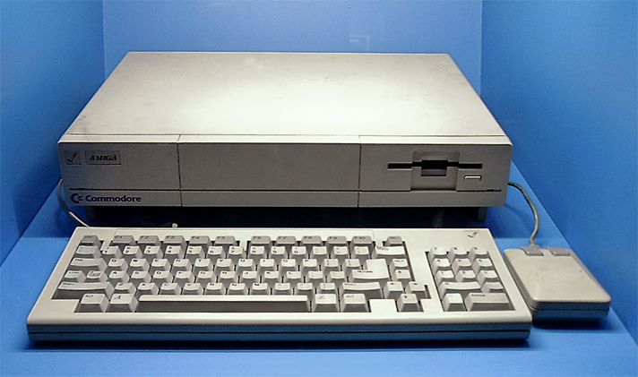 Commodore Amiga 1000 computer, Photographed at the "Game On" exhibition in 2002.